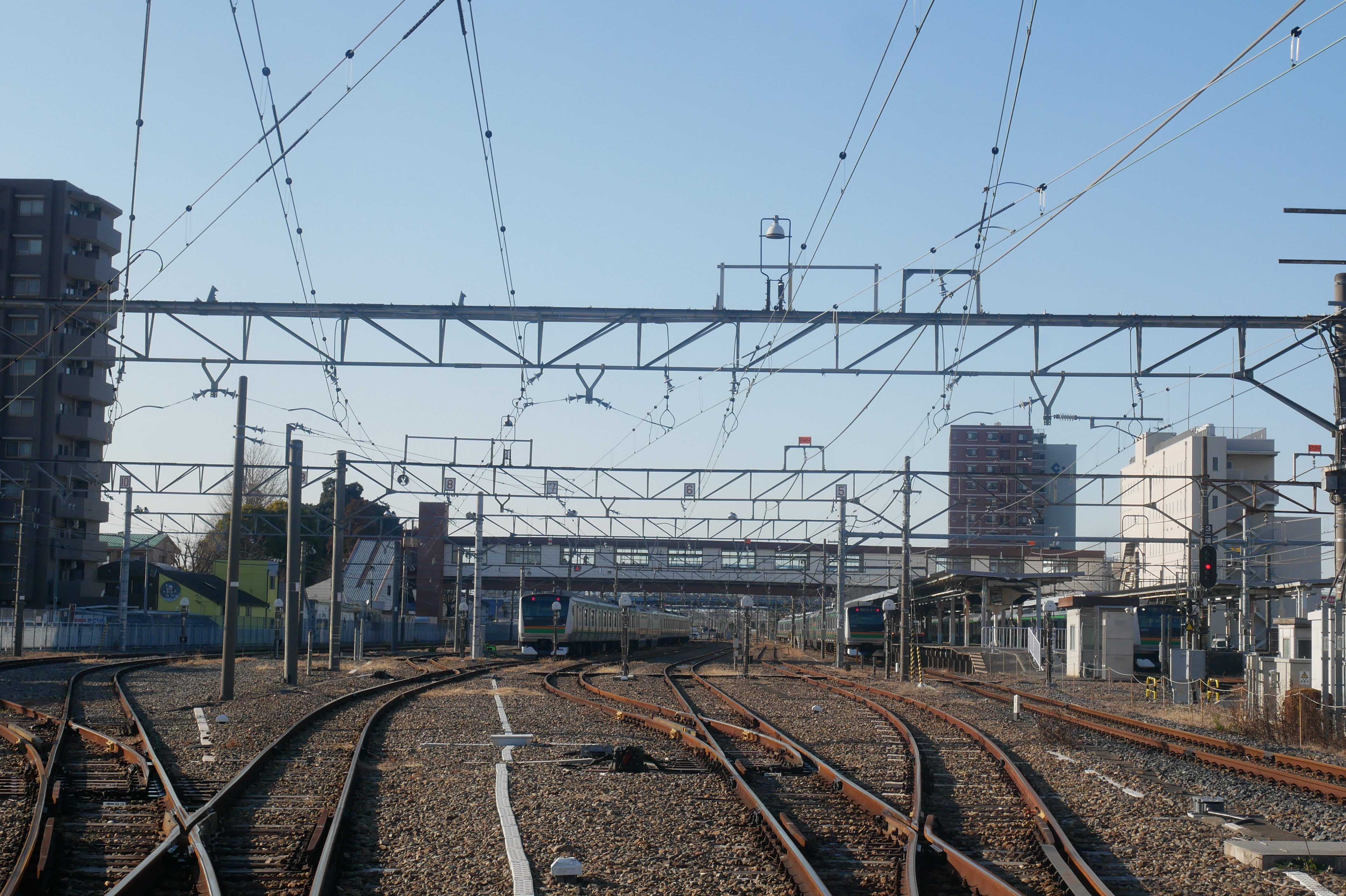 Kagohara Station tracks (籠原駅の線路)